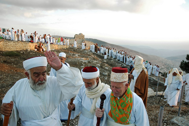 Samaritans at Mount Gerizim, West Bank, during a Sukkot pilgrimage.